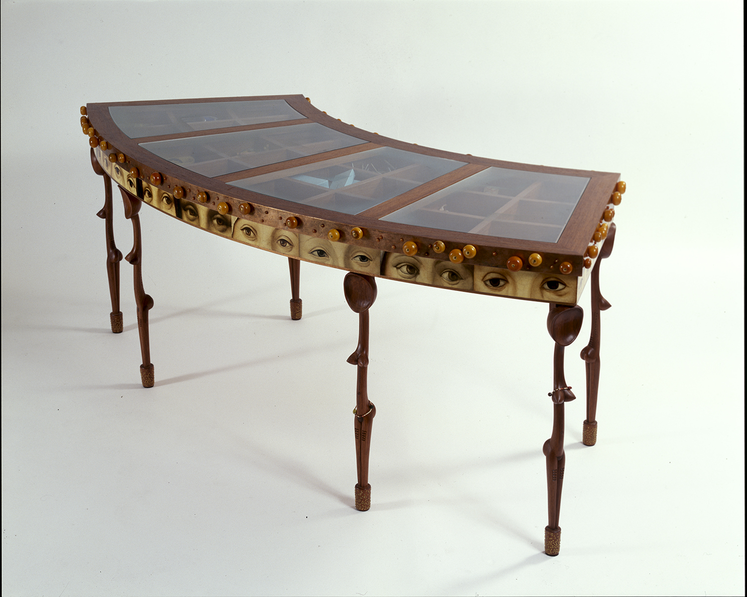 Kiaat, copper, goldleaf, oil paint, and personal and found objects.